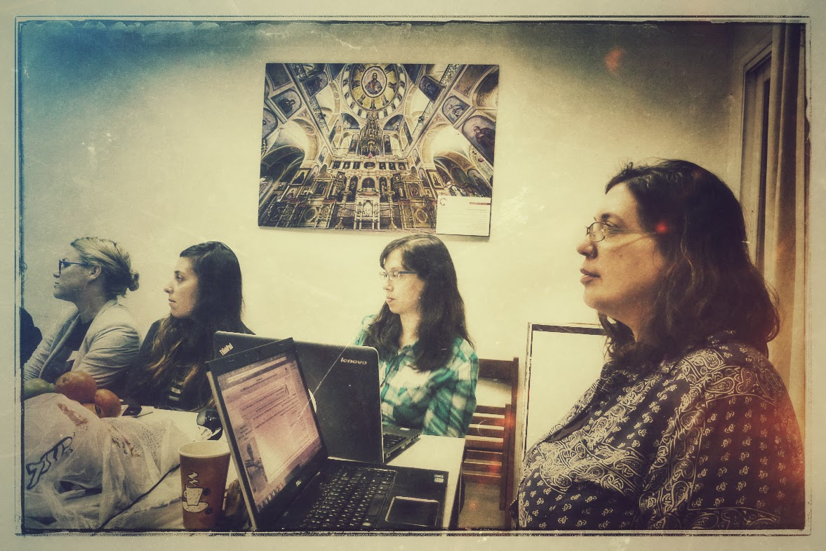 Wiki Women Editors Project - Women in technology 2.4.2015